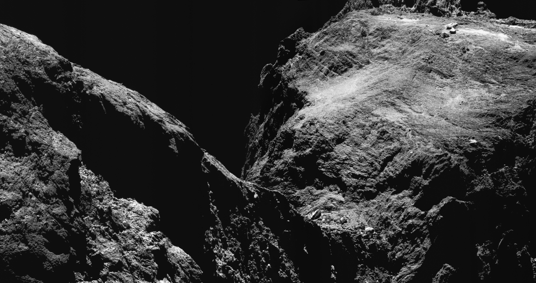 Two-frame enhanced image taken on 15 May 2016 by Rosetta’s navigation camera, some 9.9 km from the centre of the nucleus of Comet 67P/Churyumov–Gerasimenko. The scale at the surface is about 0.8 m/pixel and the image is about 1.5 km across. Part of the small comet lobe is visible on the right and a portion of the large lobe on the left. These observations were performed in a three-week period during which Rosetta flew very close to the nucleus to search for xenon, an important tracer of the early Solar System’s composition. The blend of xenon found at the comet closely resembles the primordial mixture that scientists believe was brought to our planet during the early stages of Solar System formation. These measurements suggest that comets contributed about a fifth of the xenon in Earth’s ancient atmosphere. More about this discovery:Rosetta finds comet connection to Earth’s atmosphere